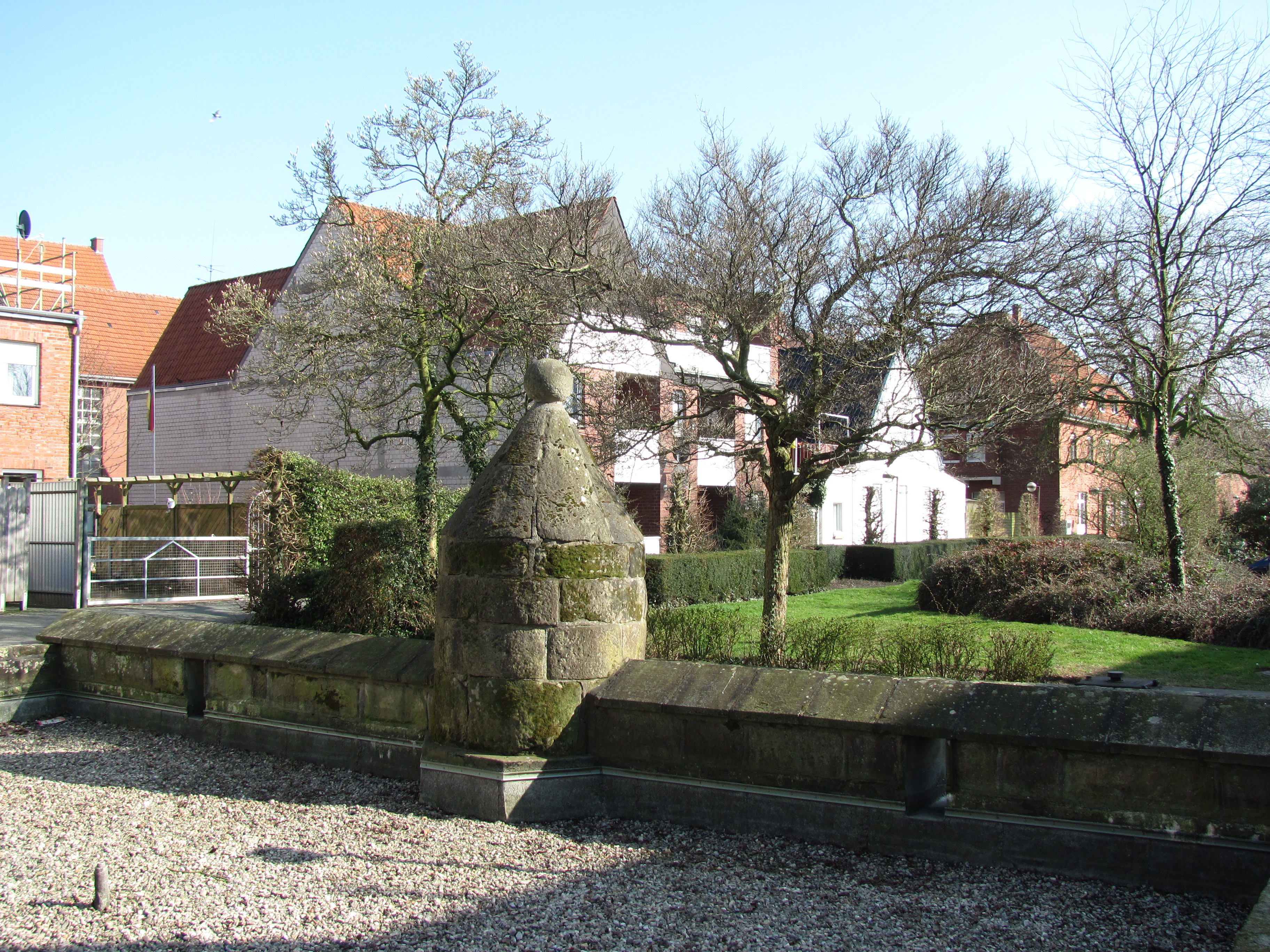 Medieval defensive wall, Ochtrup, North Rhine Westphalia, Germany.